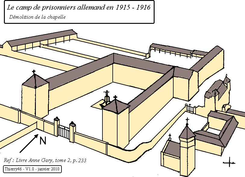 Map of the prison camp (1916) in town Montfaucon in Lot, France.